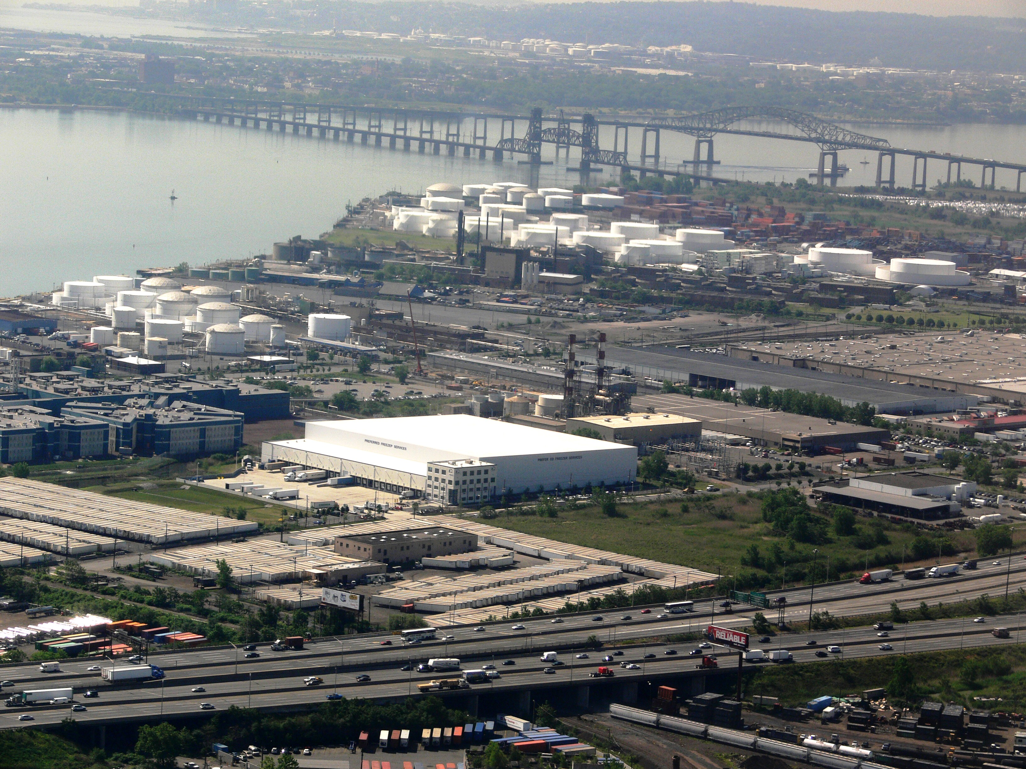 View over Newark Bay with Newark Bay Bridge (in the very back) and Conrail Bridge connecting Newark NJ and Bayonne NJ